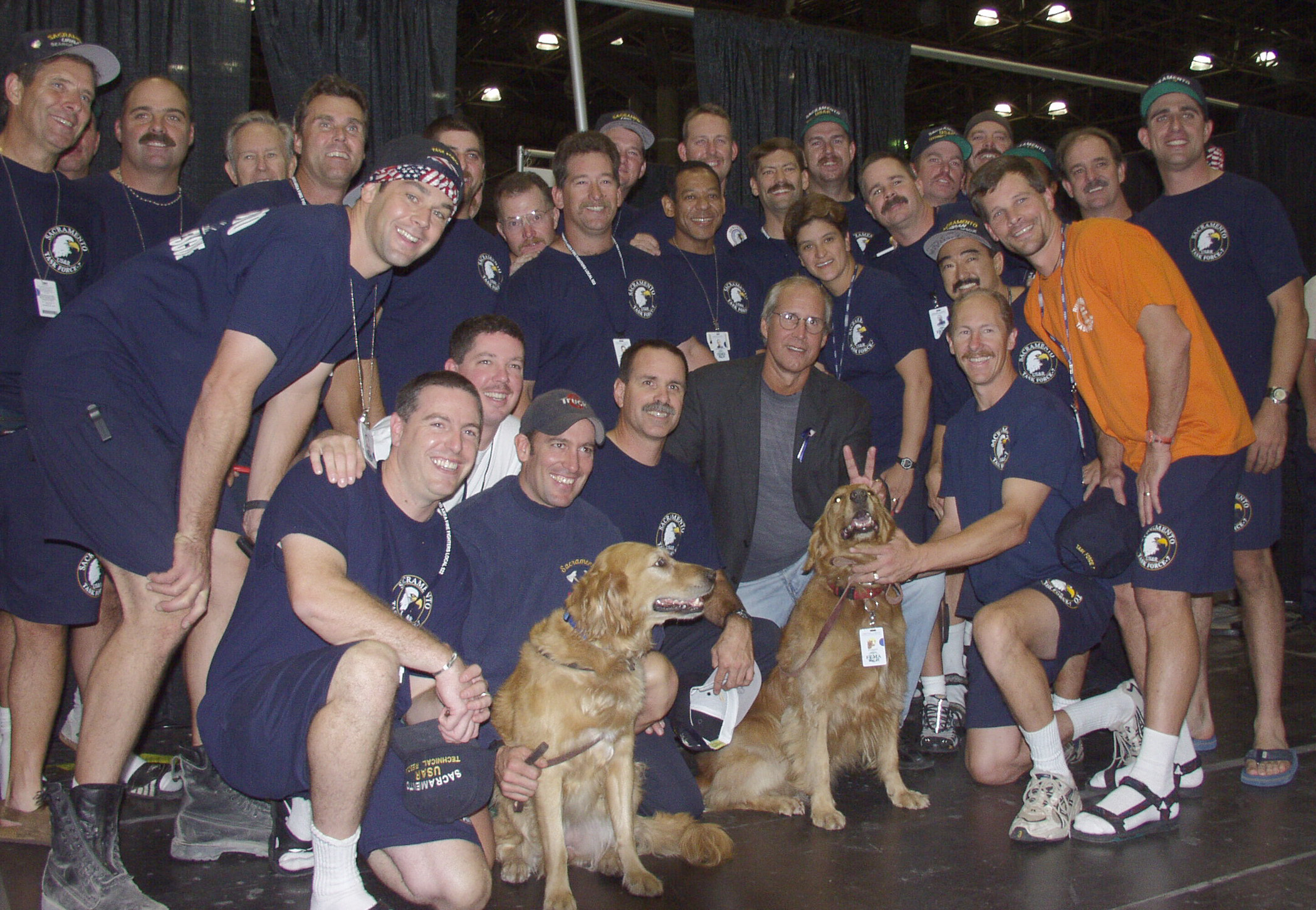 A Sacramento, California Urban Search and rescue team pause for a picture with Chevy Chase who came to offer his thanks for their work at World Trade Center.